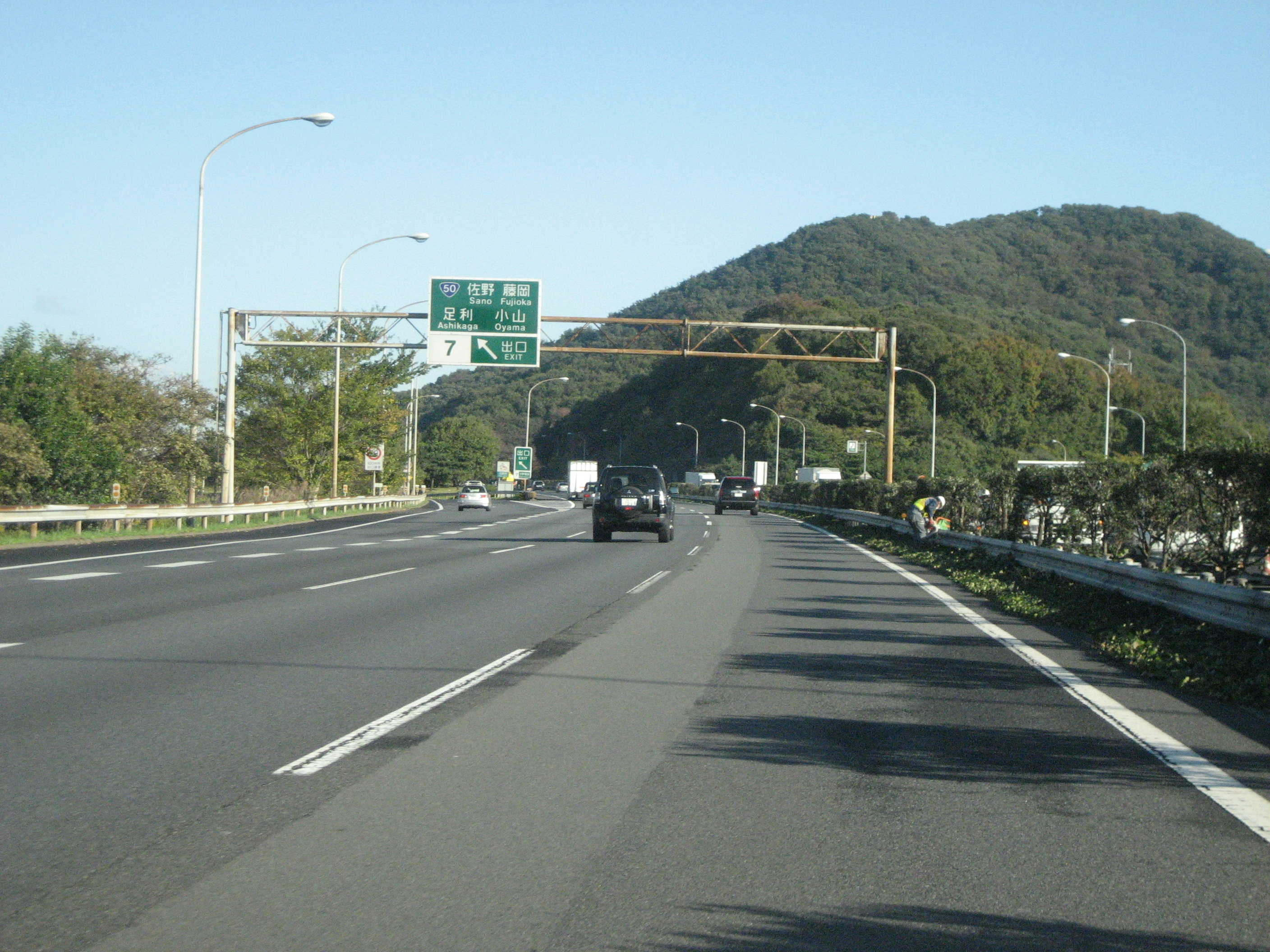 Tohoku Expressway Sano-Fujioka Interchange